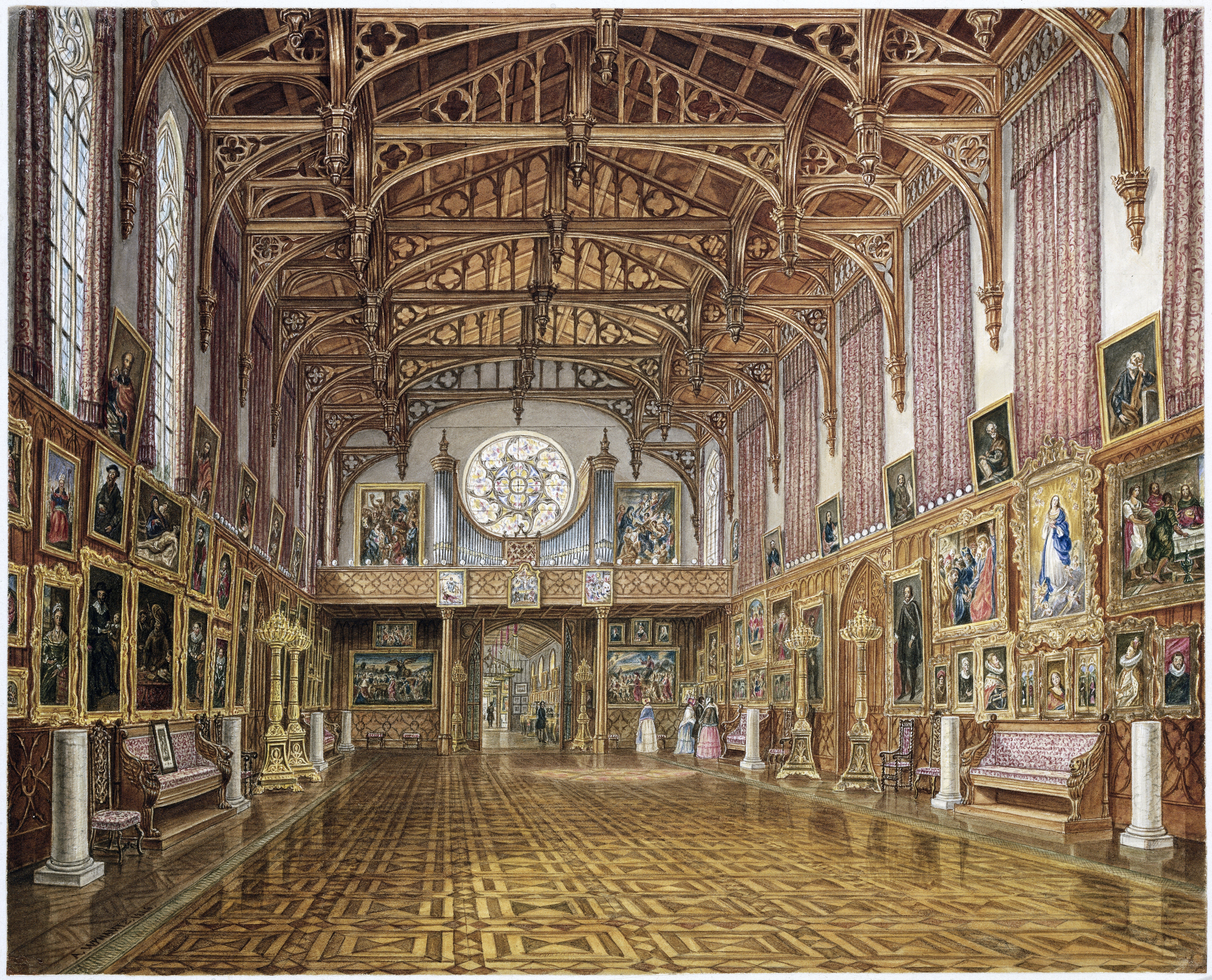 Interior of the 'Gothic Hall', Kneuterdijk Palace, The Hague, the Netherlands, in 1846.